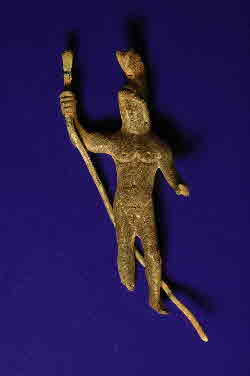 Bronze statuette of Mars from the temple at "Vicus Wareswald", Saarland